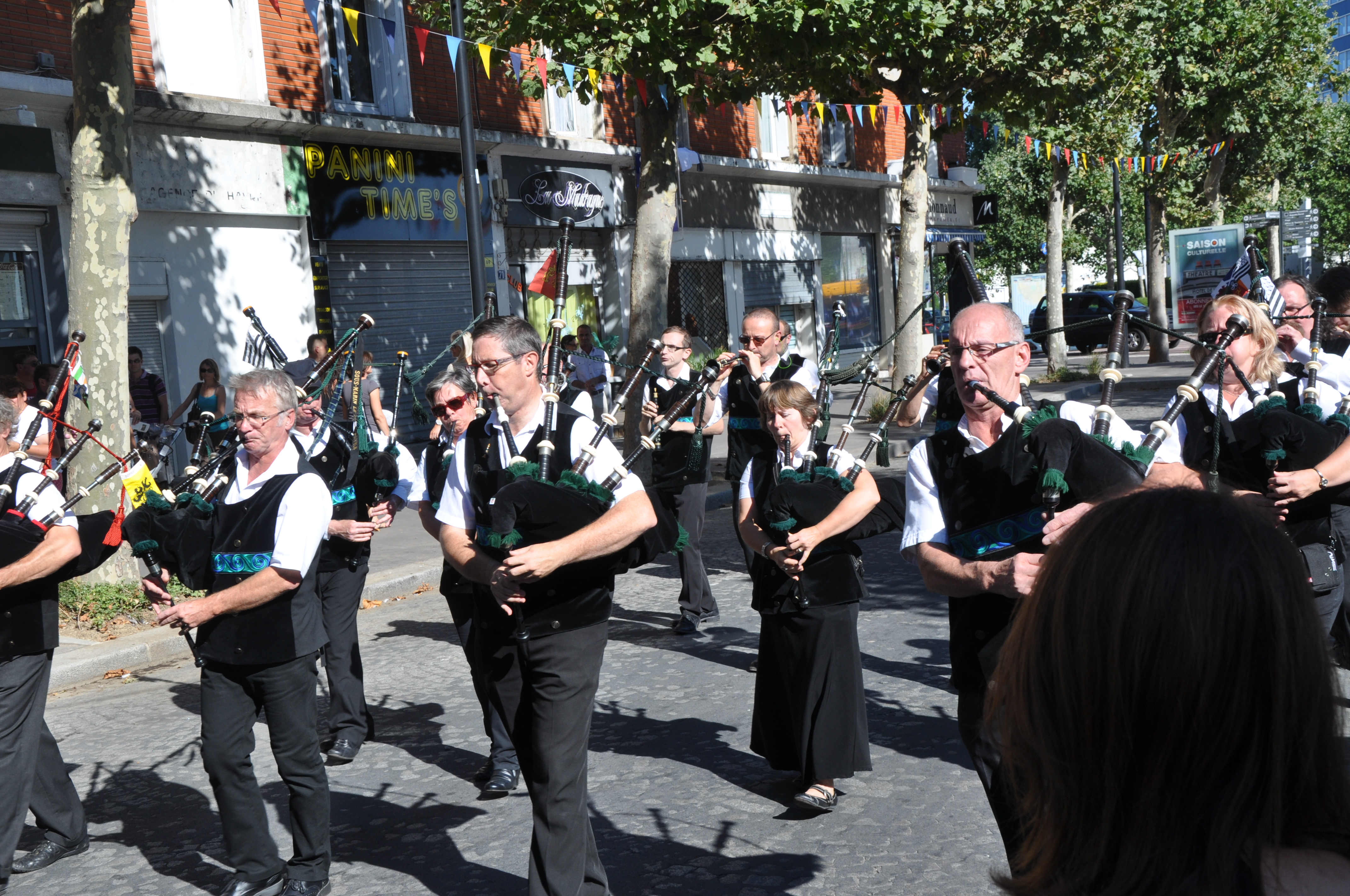 Numbers of inhabitants of Le Havre (France, Normandy) come from Britanny.